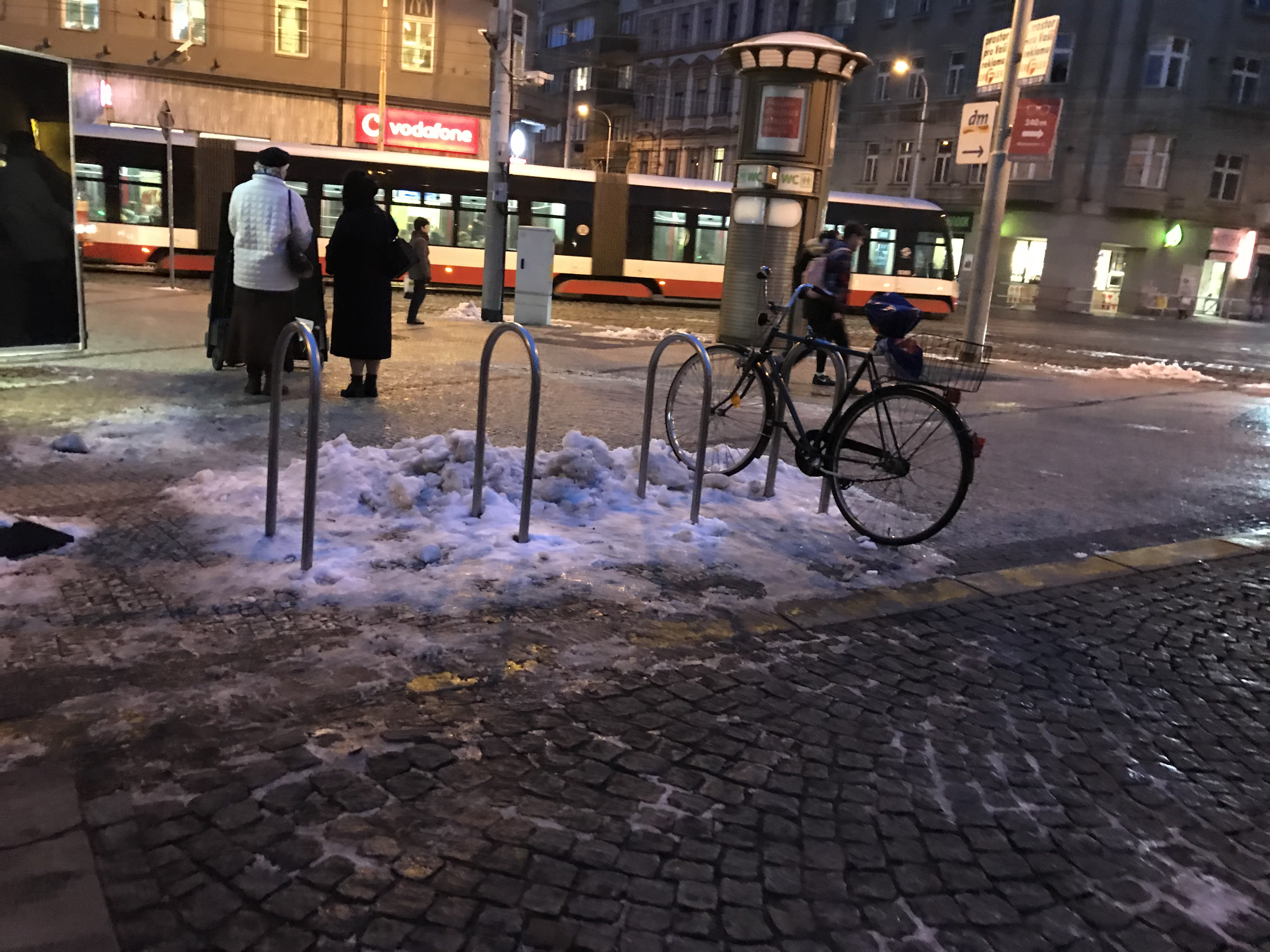 Bike stand at I.P. Pavlova in February 2019, Prague